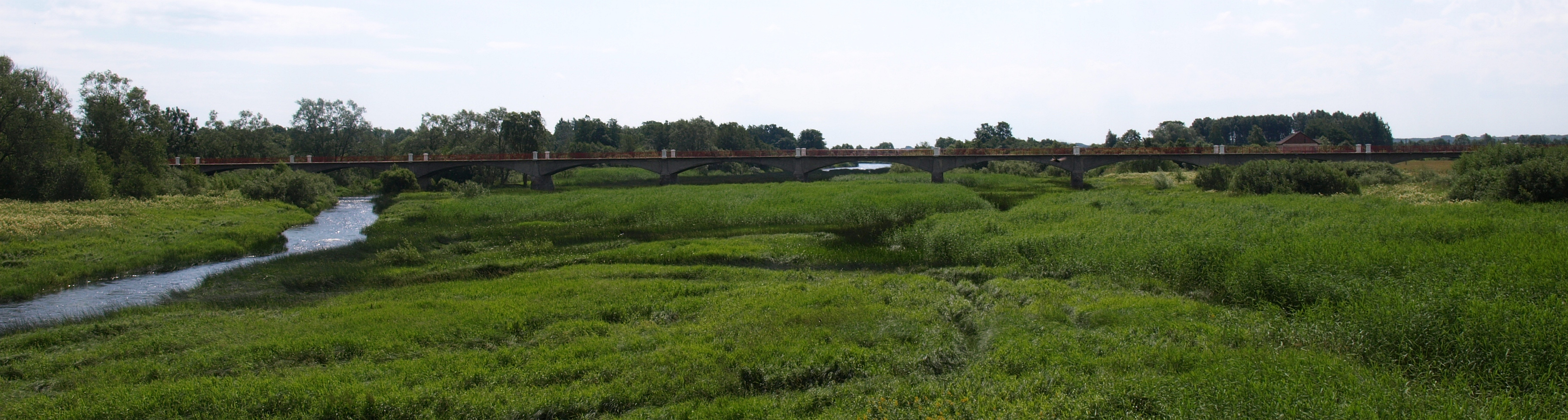 Old Kasari bridge, built 1904, the longest concrete bridge in the world at time (308 m). No longer in use. Taken from the easternmost border of the Matsalu National Park, which is at the opposite direction. Cropped for better visibility of the bridge.